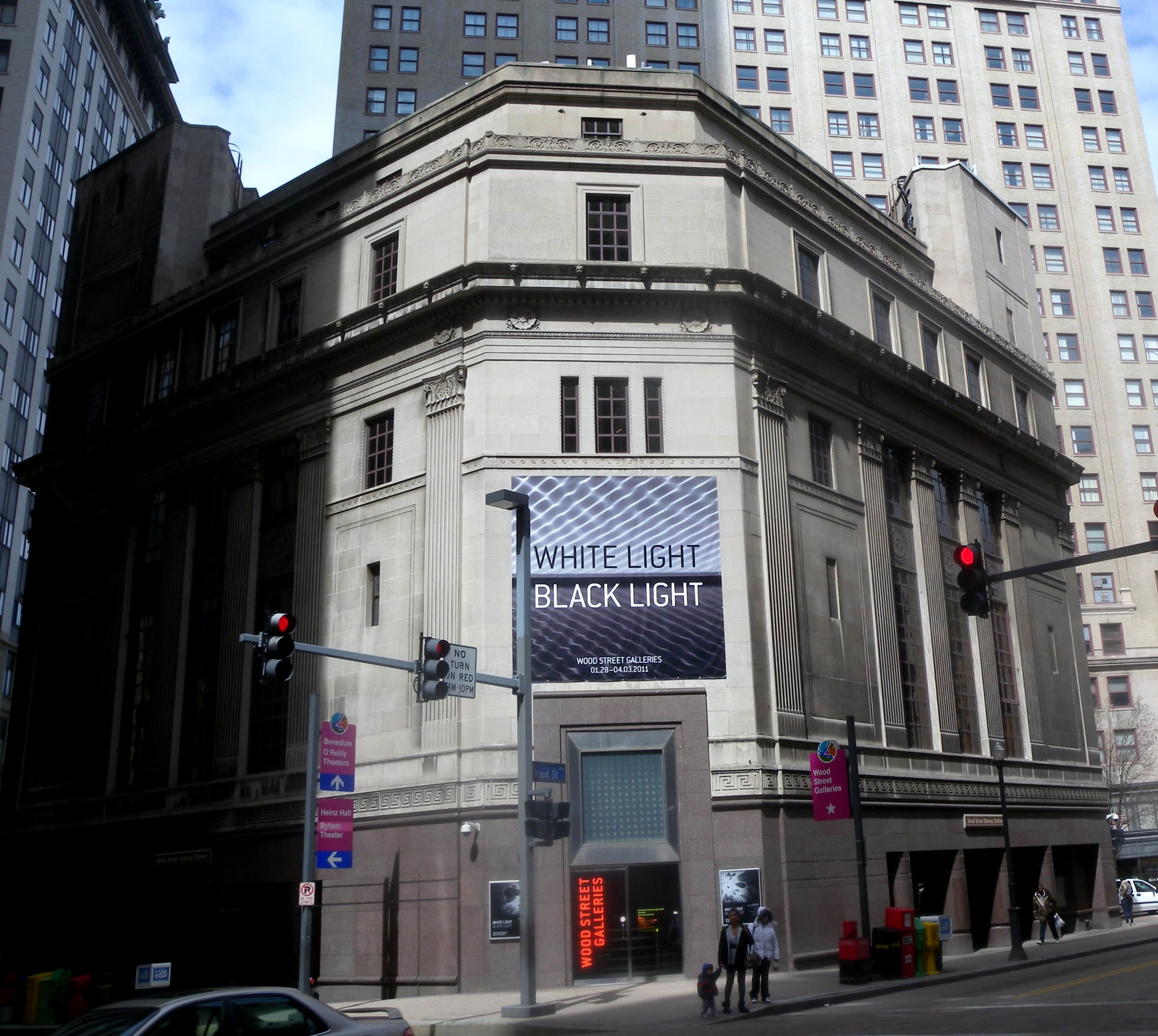 Looking north across Wood St and 6th Ave at Galleries on a sunny midday.